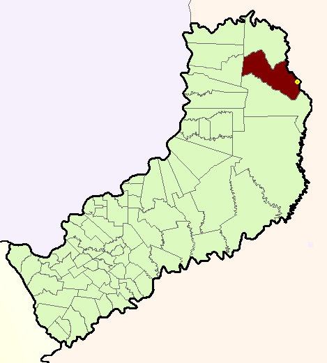 Map showing municipio of San Antonio in Misiones Province, Argentina. Big point marks San Antonio town.